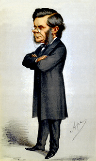 chromolithograph Caricature of Thomas Henry Huxley. Caption read "A great Med'cine-Man among the Inqui-ring Redskins".